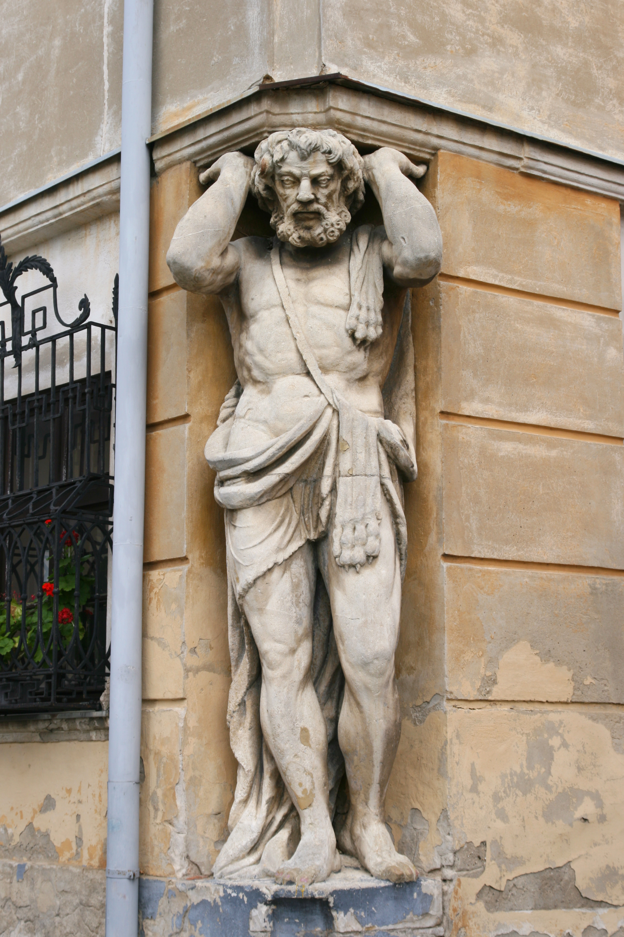 Corgoň Statue in Nitra created by Vavrinec Dunajský in 1820.